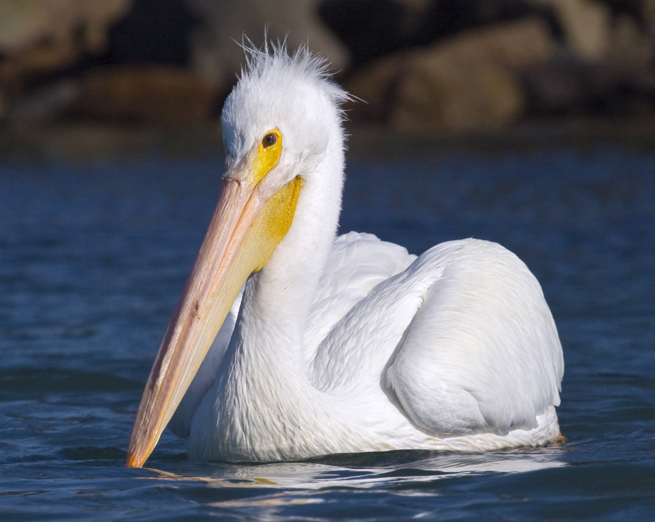 American White Pelican (Pelecanus erythrorhynchos ) (bird) in Morro Bay, CA, Embarcadero Tidelands Park area, Morro Bay, CA Mon. Nov. 20, 2007 20nov2007 Photo by Mike Baird, Canon 20D with 100-400mm IS lens handheld taken from a kayak